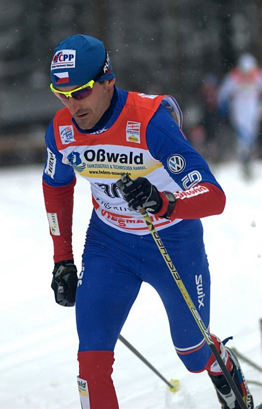 Jiří Magál at the Tour de Ski 2010 in Oberhof